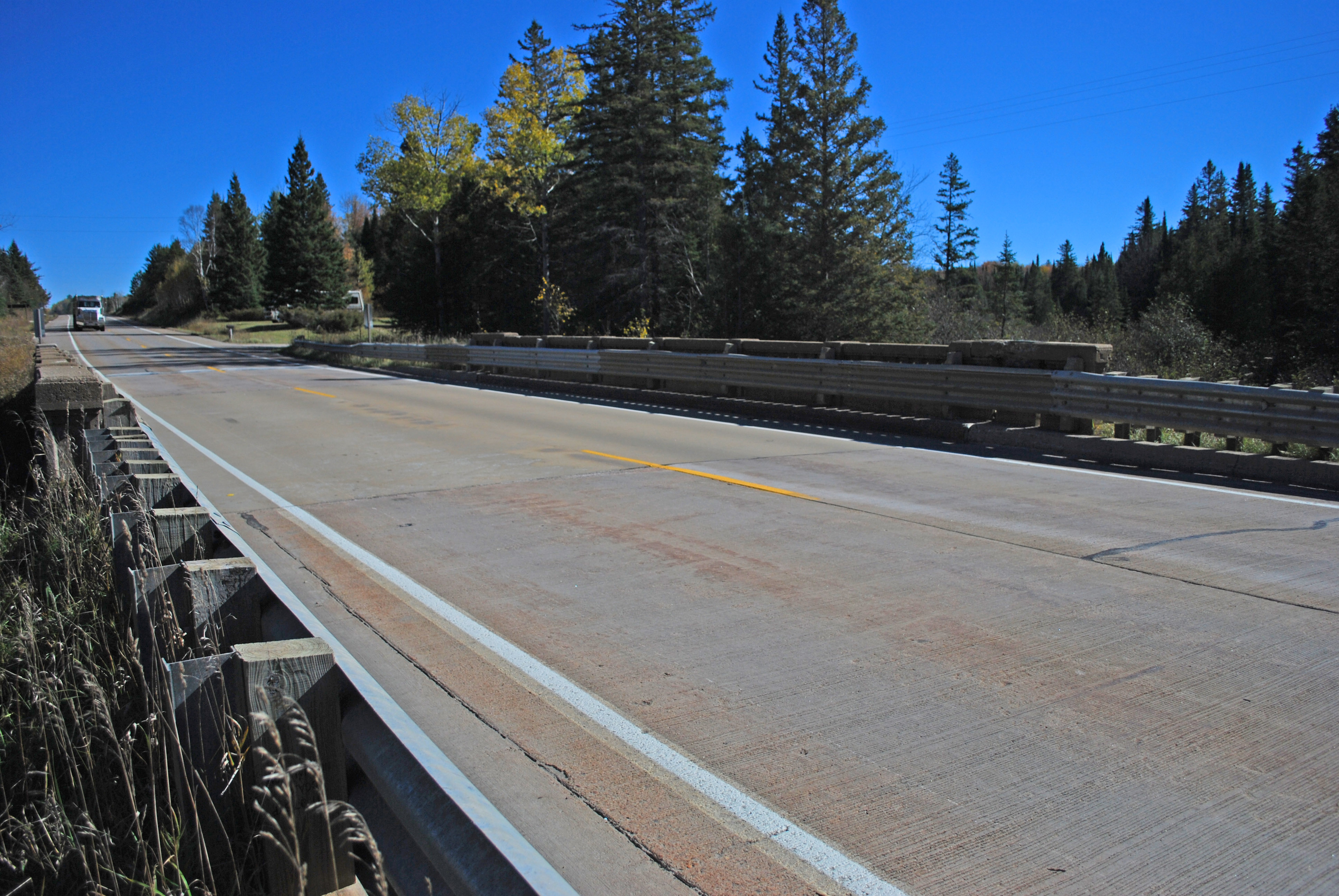 M-28–Tahquamenon River Bridge-Chippewa County, MI